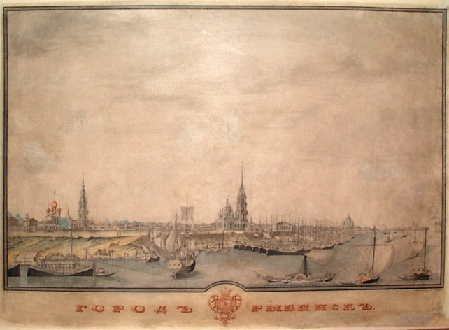 Ivan Belonogov. View of Rybinsk in the 1848.